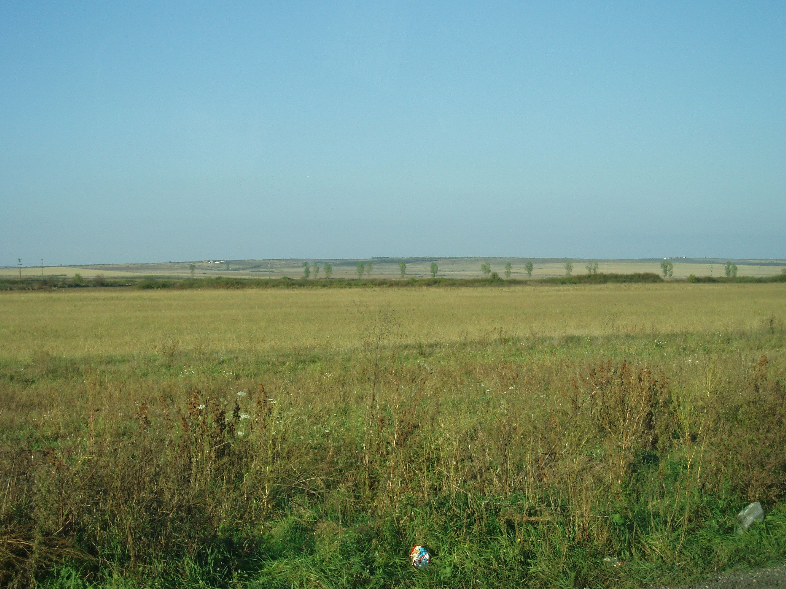 Puszta, east of Budapest, close to the Rumanian border.